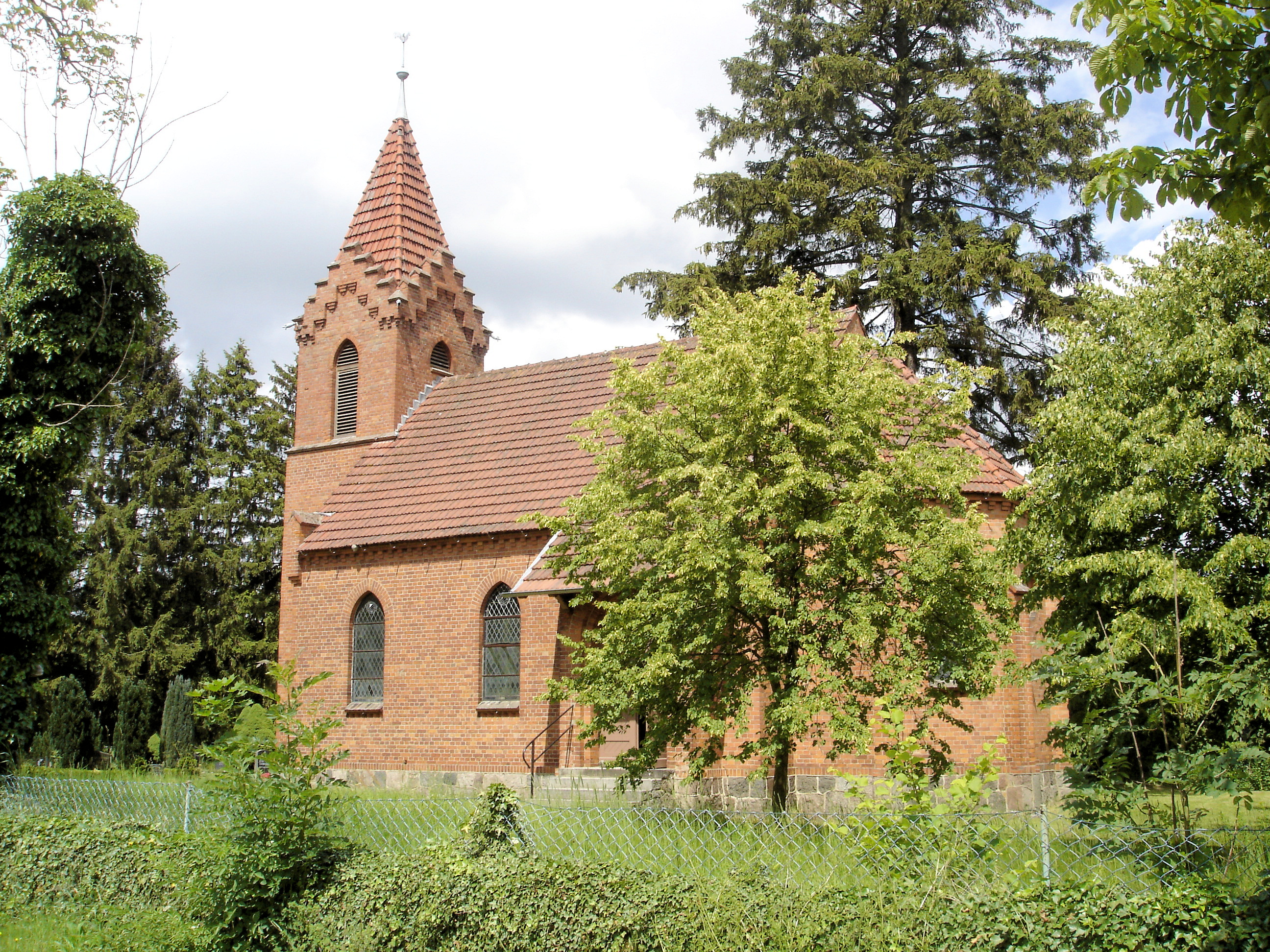 Church in Krümmel, Mecklenburg, Germany